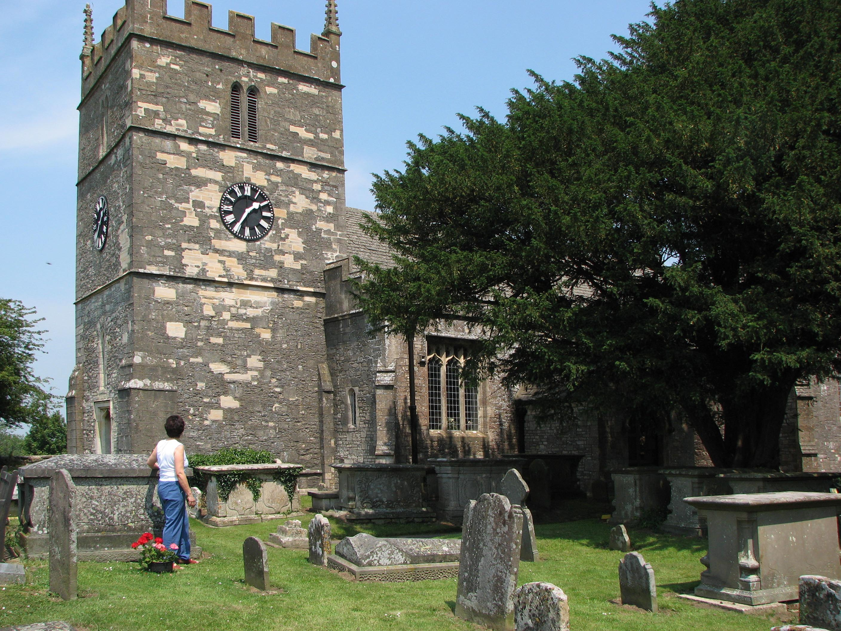 Parish church of St John the Baptist, Old Sodbury, South Gloucestershire, England, seen from the southwest